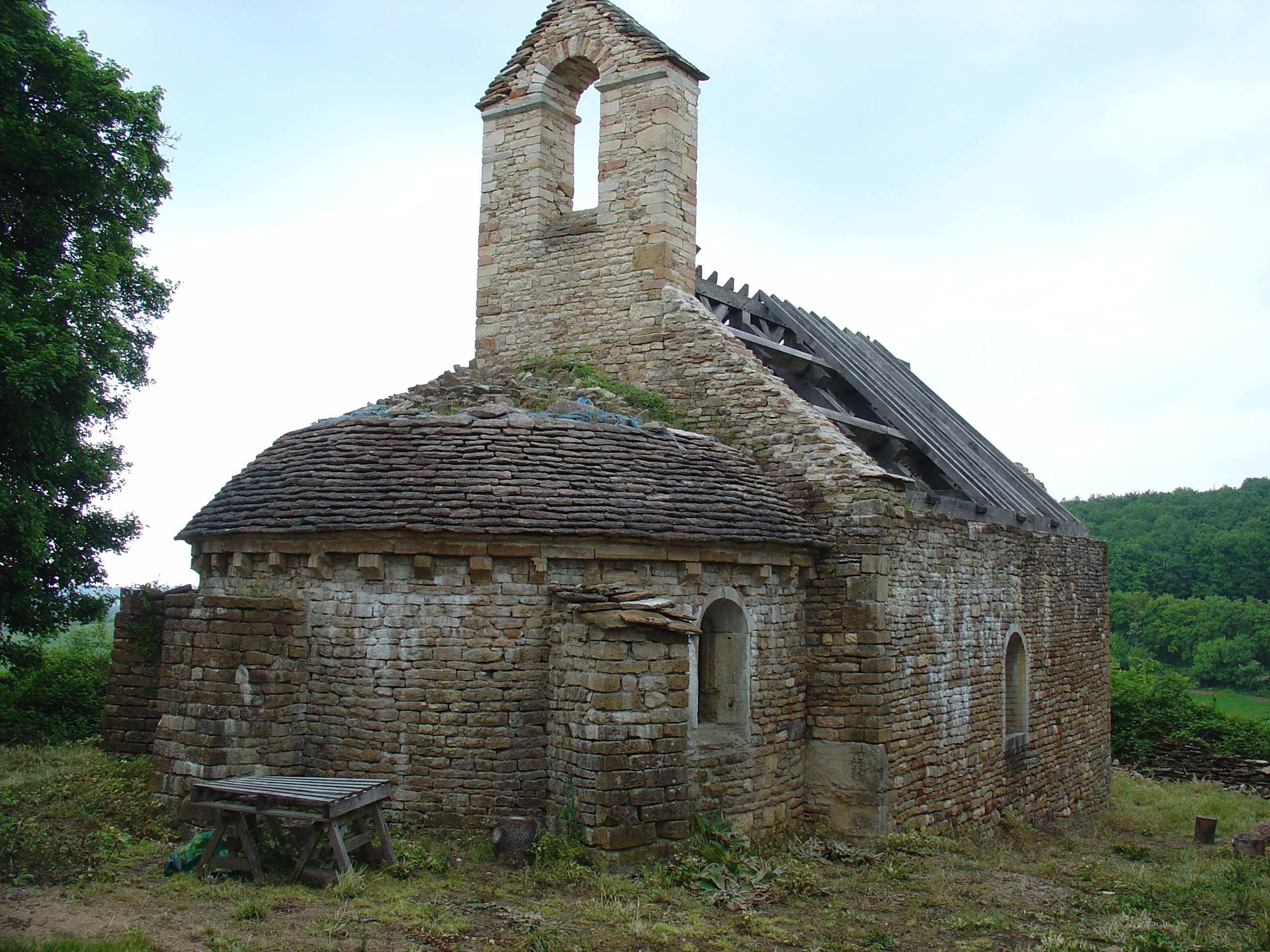 Saint-Criat'chapel. Verchizeuil, village of Verzé, Saône et Loire (France)